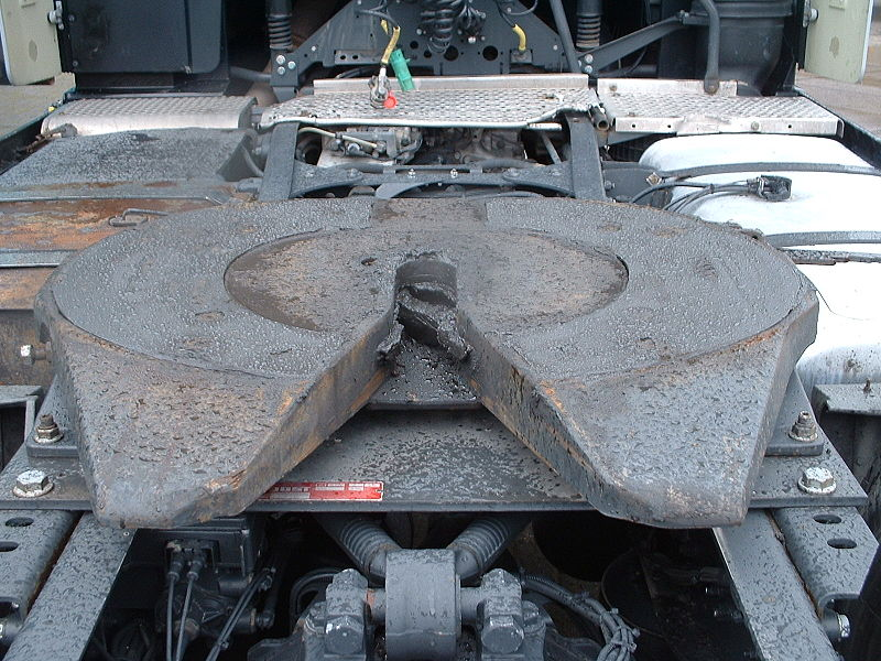 Turntable hitch (fifth wheel) on Scania prime mover